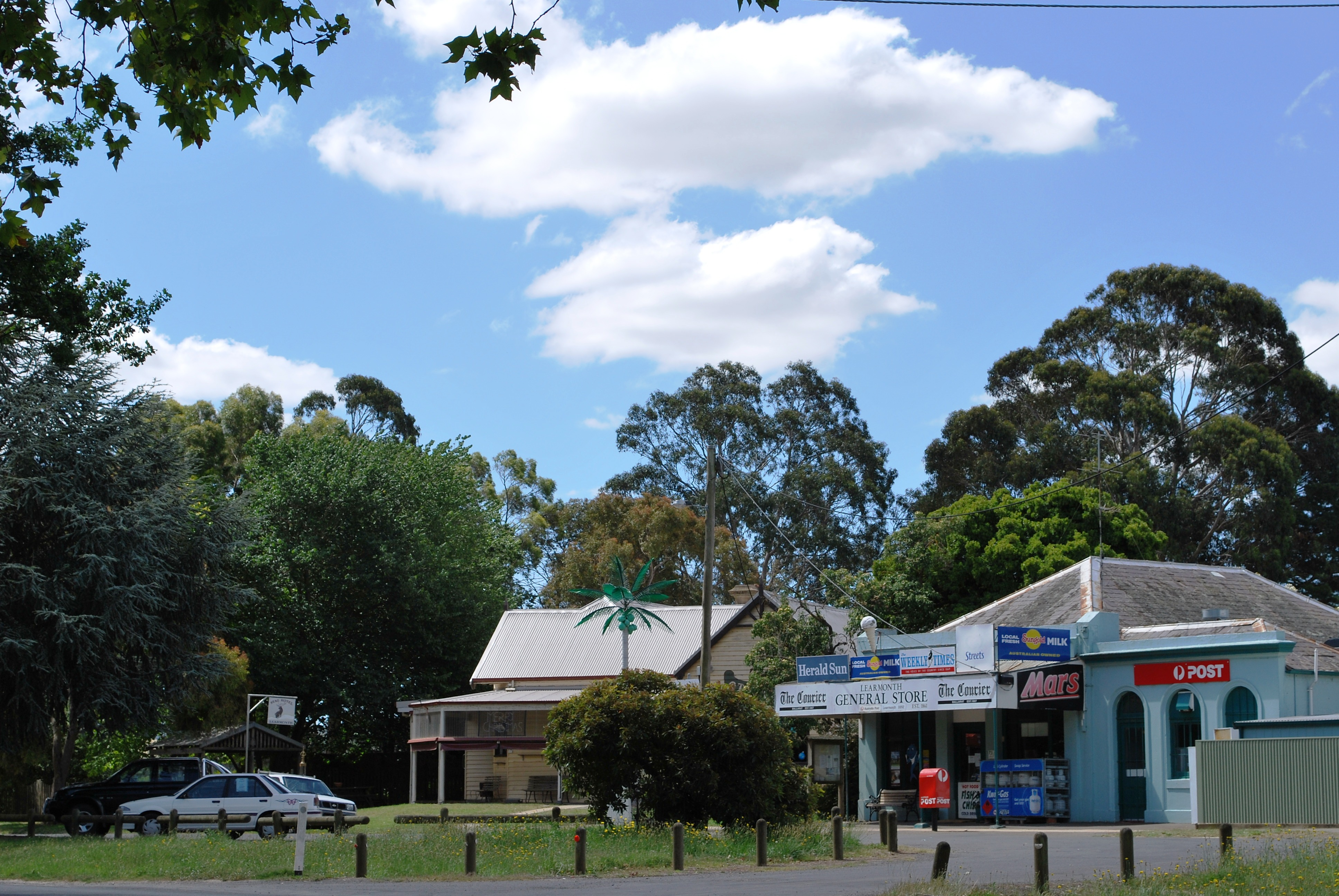 The Stags Hotel and General Store/Post office at Learmonth, Victoria